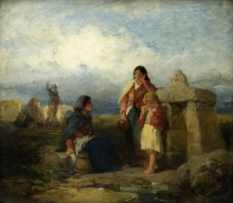 At the Holy Well, genre painting.